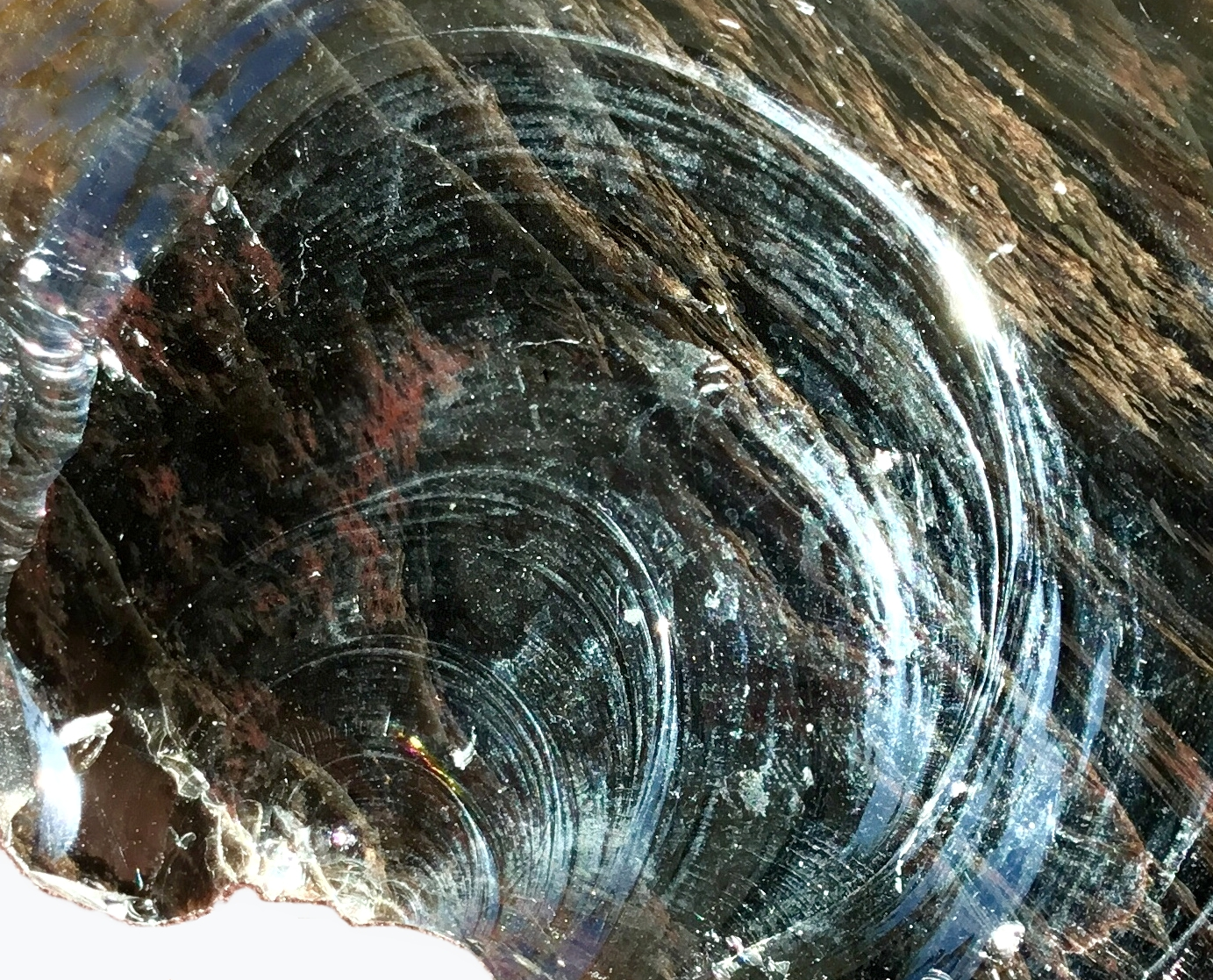 Conchoidal fracture, Obsidian from Armenia